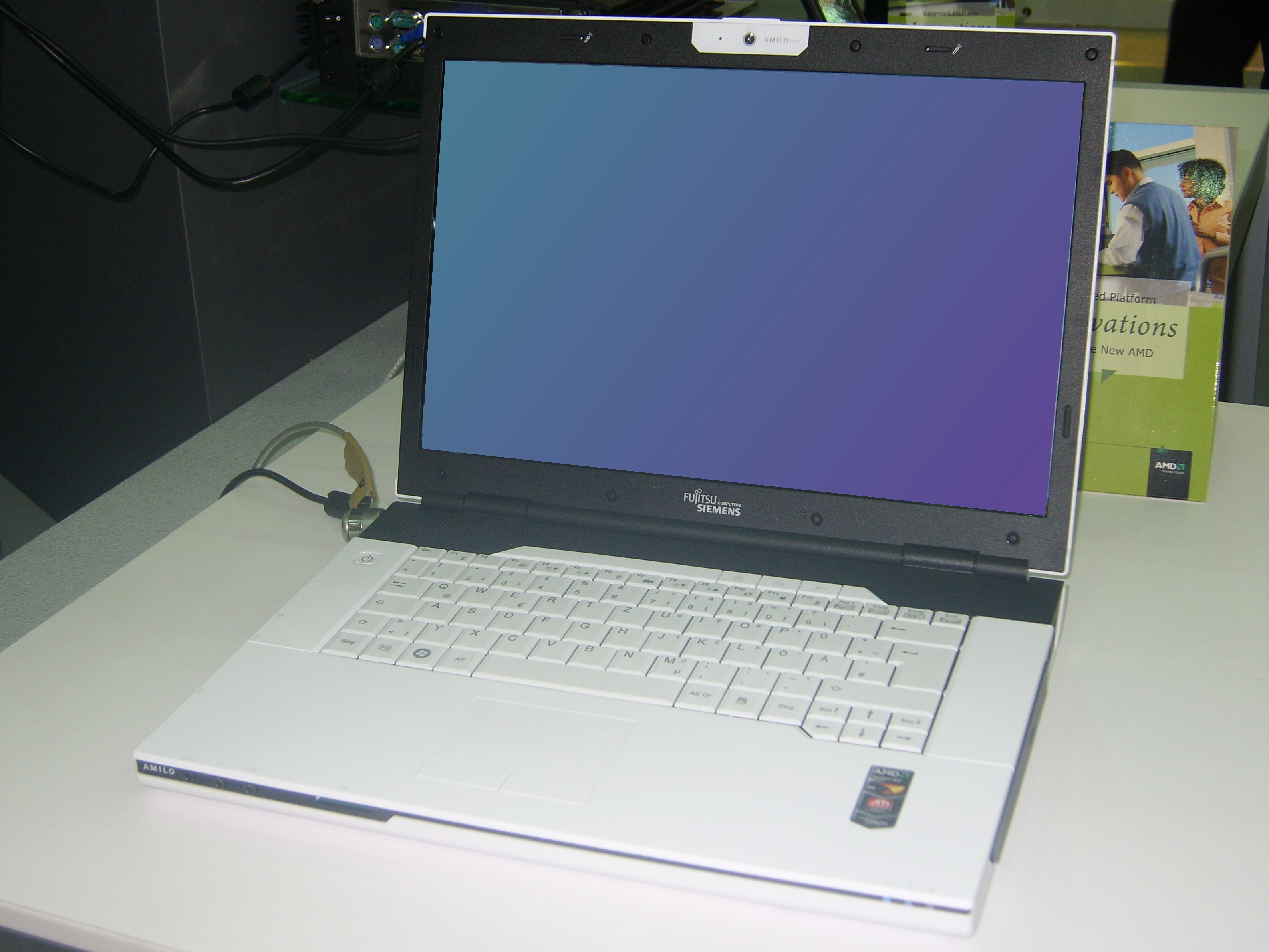 2008 Computex: Fujitsu-Siemens Amilo Notebook XA-3530.